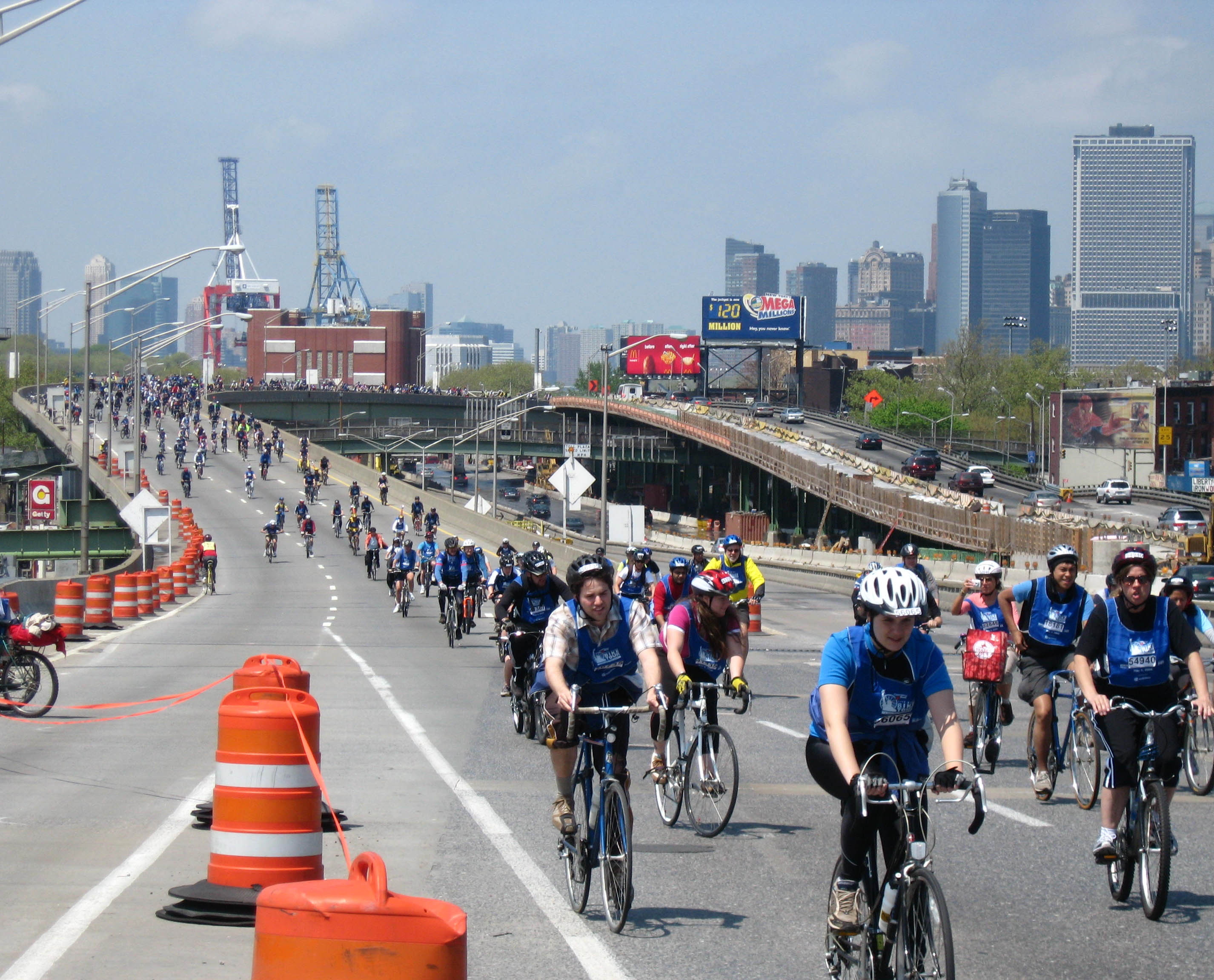 Looking north as Five Boro Bike Tour climbs towards Gowanus Canal on north end of Gowanus_Expressway on a mostly sunny early afternoon in springtime.